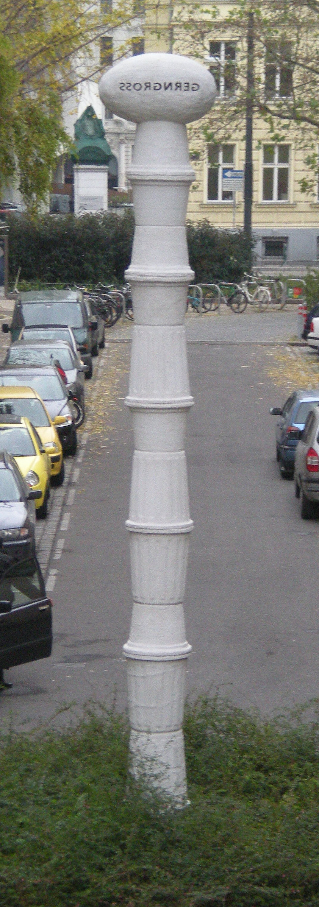 Gerngross column by Austrian sculptor Franz West, named after architect Heidulf Gerngross, near Rahlstiege stairways in Mariahilf (Vienna's 6th district). The name Gerngross is in mirror-writing, so that the chicken can read it from inside the egg.